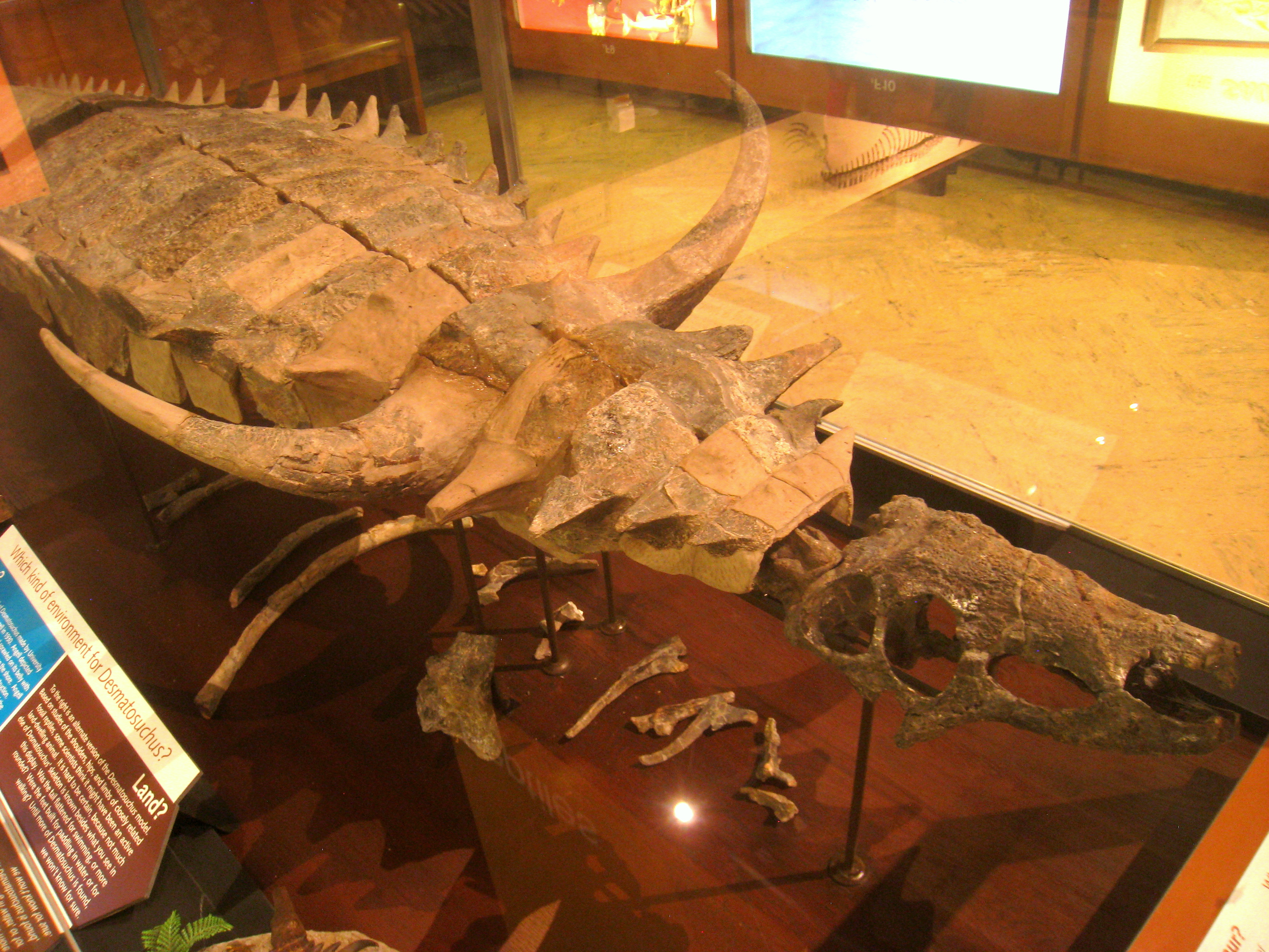 Desmatosuchus. Exhibit Museum of Natural History, University of Michigan, 1109 Geddes Avenue, Ann Arbor, Michigan, USA.